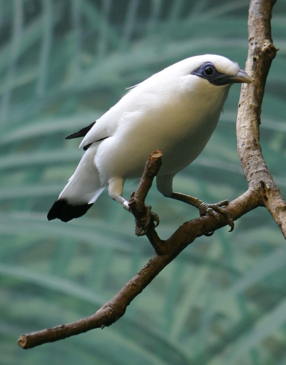 Leucopsar rothschildi: Bali Mynah/Bali Starling at the Houston Zoo